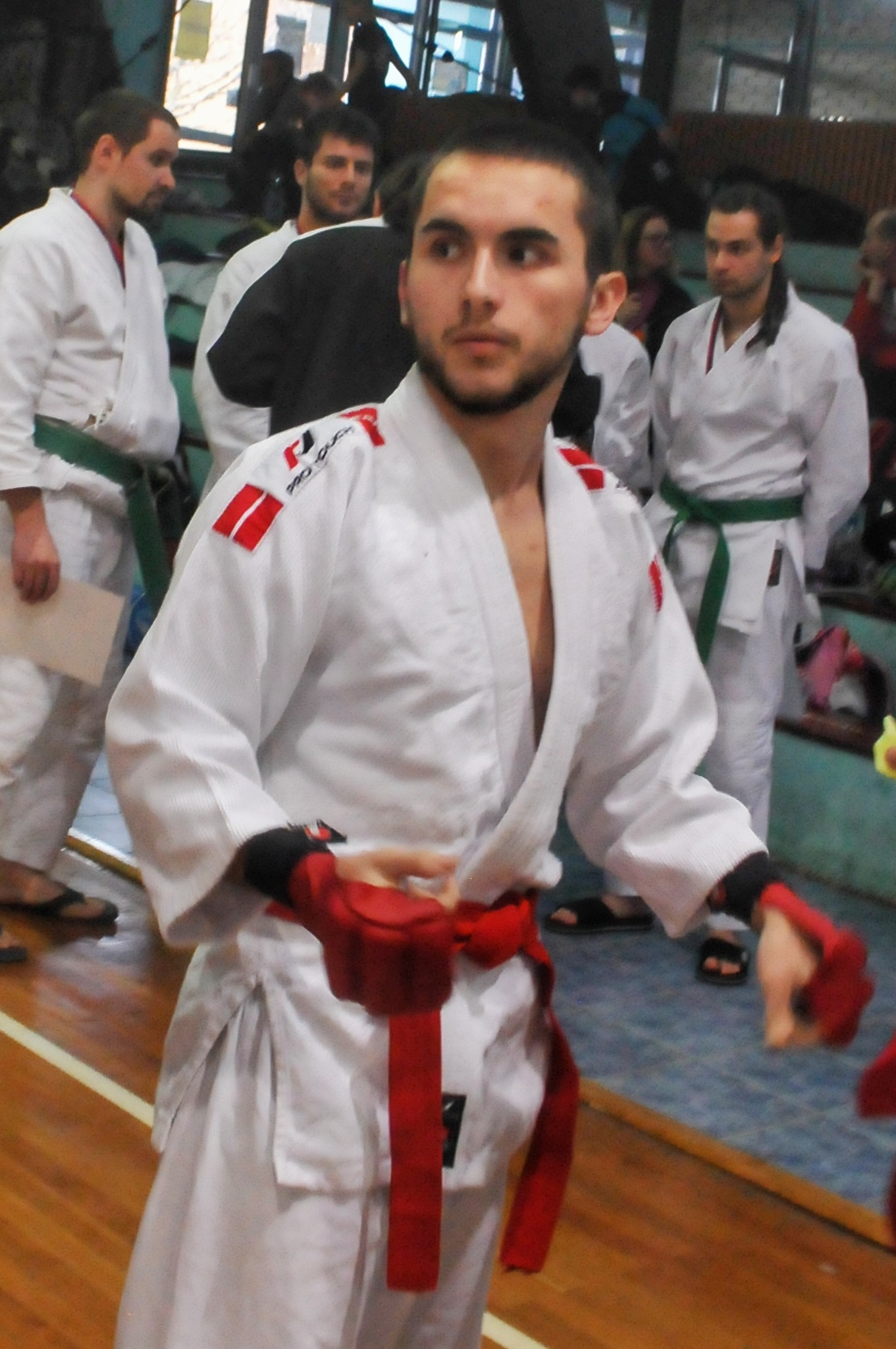 Serbian Championship 2018.